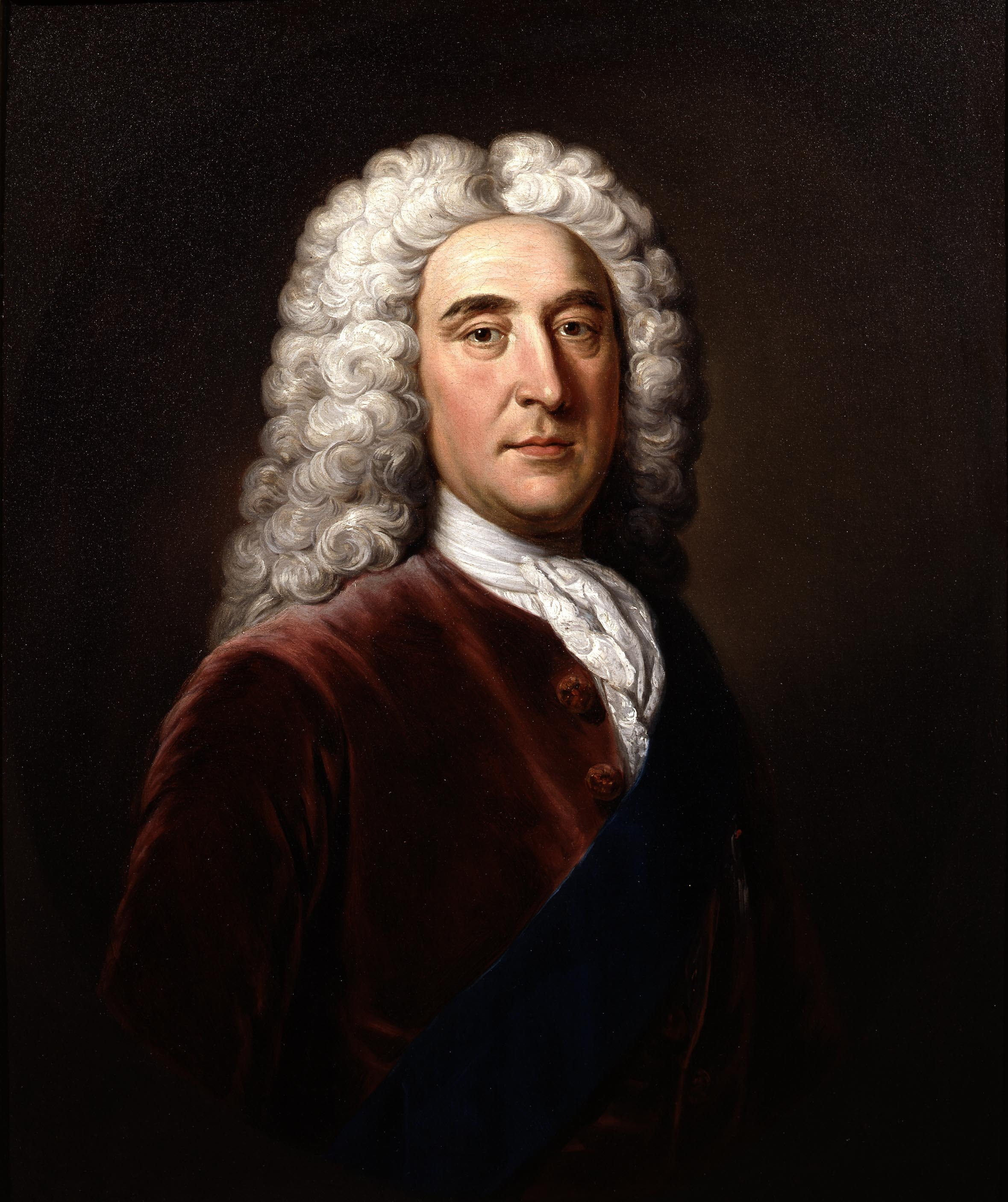 Thomas Pelham-Holles, 1st Duke of Newcastle-upon-Tyne (1693-1768)